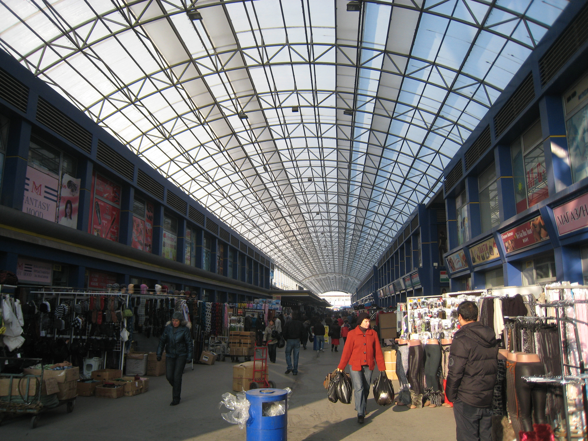 Entrance passage in Iliyantsi bazar, Sofia, Bulgaria